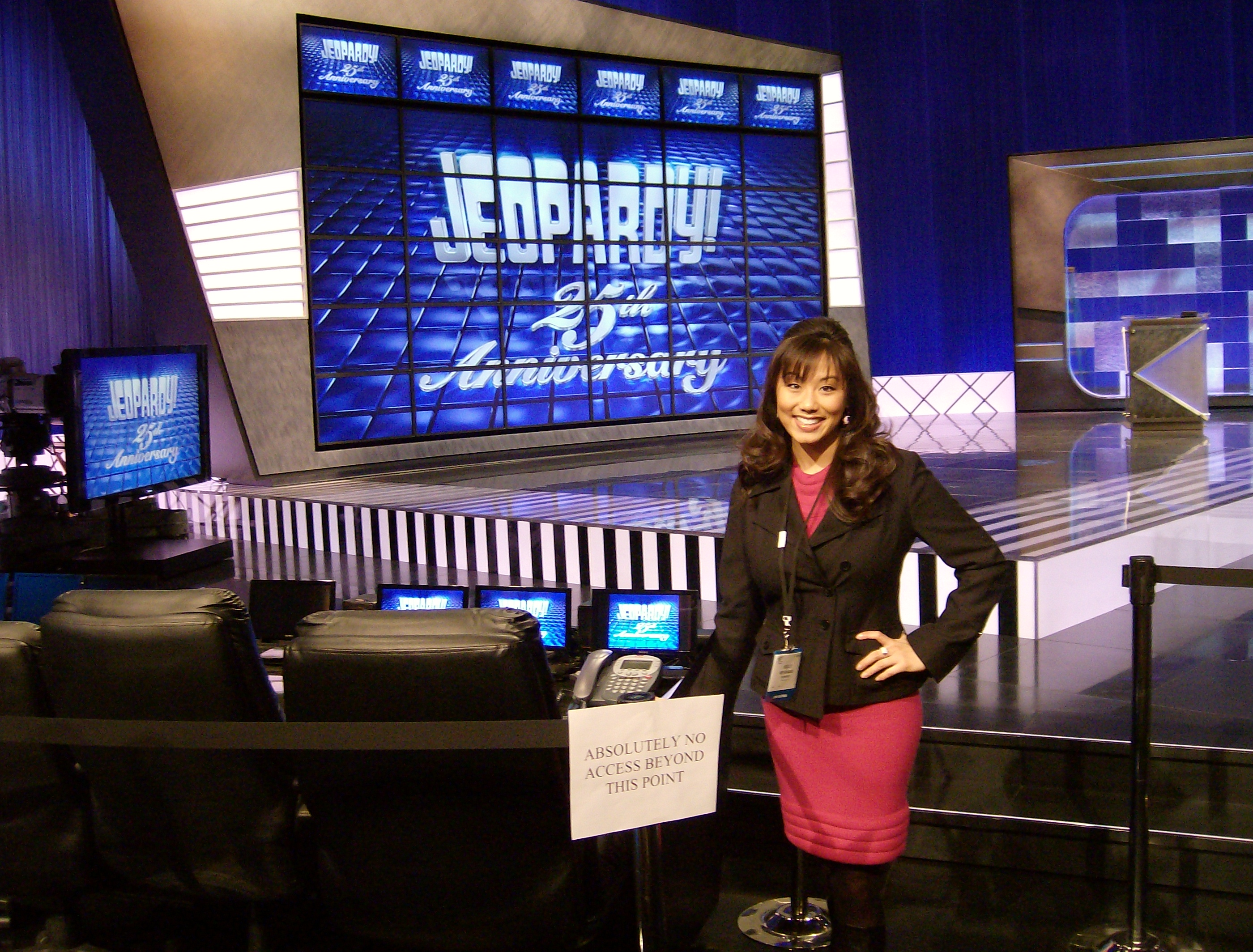 Kelly Miyahara is on Jeopardy's clue crew. Behind her is the elaborate set on which Jeopardy is filming their tournament of champions as well as some celebrity jeopardy segments. Filming is all week here at CES Las Vegas for March TV schedules.